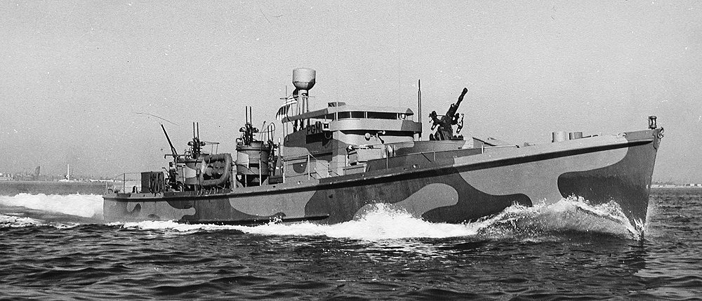 USS PGM-6 after her conversion from a SC-497 class submarine chaser into a PGM-1 class motor gunboat.